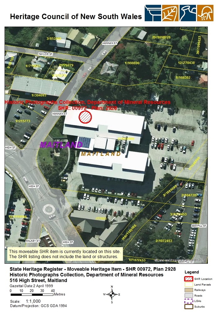 Department of Mineral Resources Historic Photographs Collection: SHR Plan No 2928